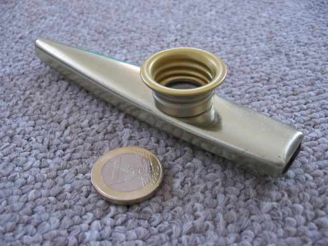 A metal kazoo